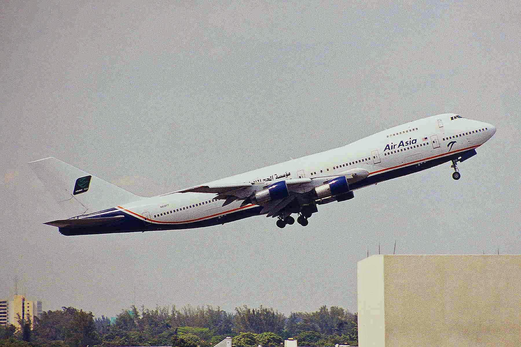 Departing Miami on Haj lease to Air Asia, operated by Tower Air